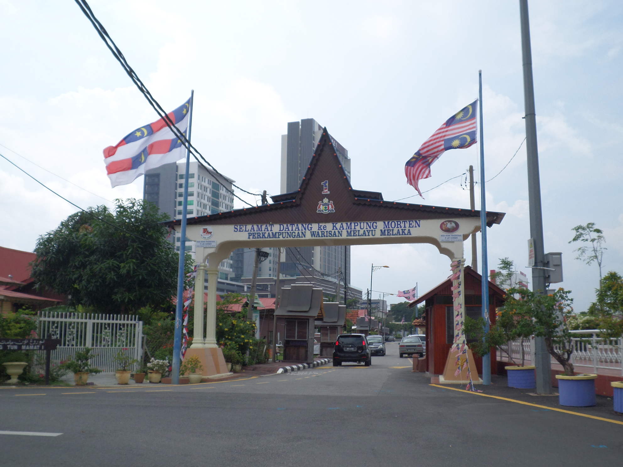 Morten Village, Malacca City, Malacca, MalaysiaBahasa Melayu: Kampung Morten, Bandaraya Melaka, Melaka, Malaysia